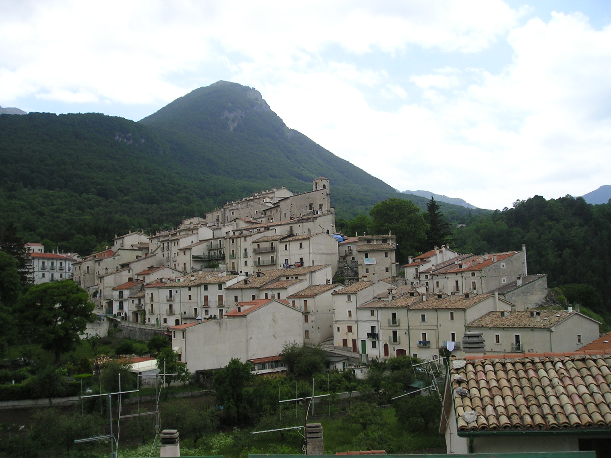 View of Civitella Alfedena